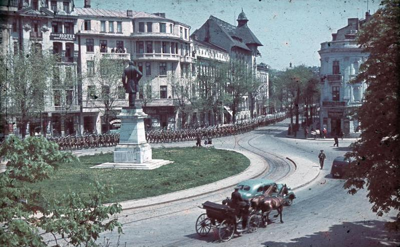 Information added by Wikimedia users.Piaţa Mihail Kogălniceanu, Bucharest